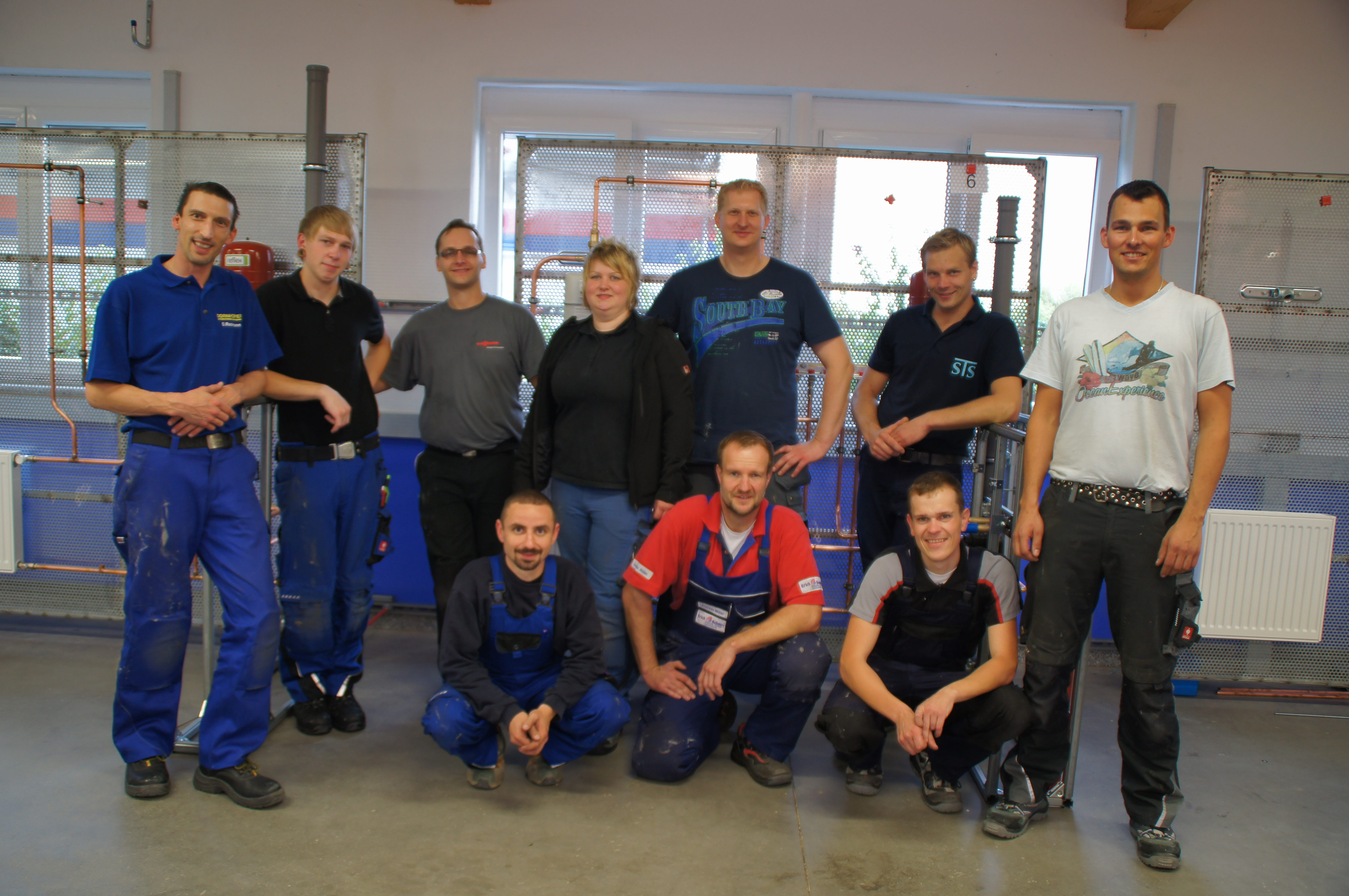 Teilnehmer der deutschen Heizungsbauermeisterschaft